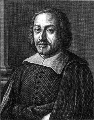 Portrait of Matteo Rosselli